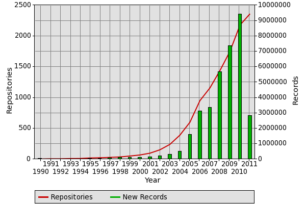 ROAR growth curve for open access repositories, Aug 1 2011